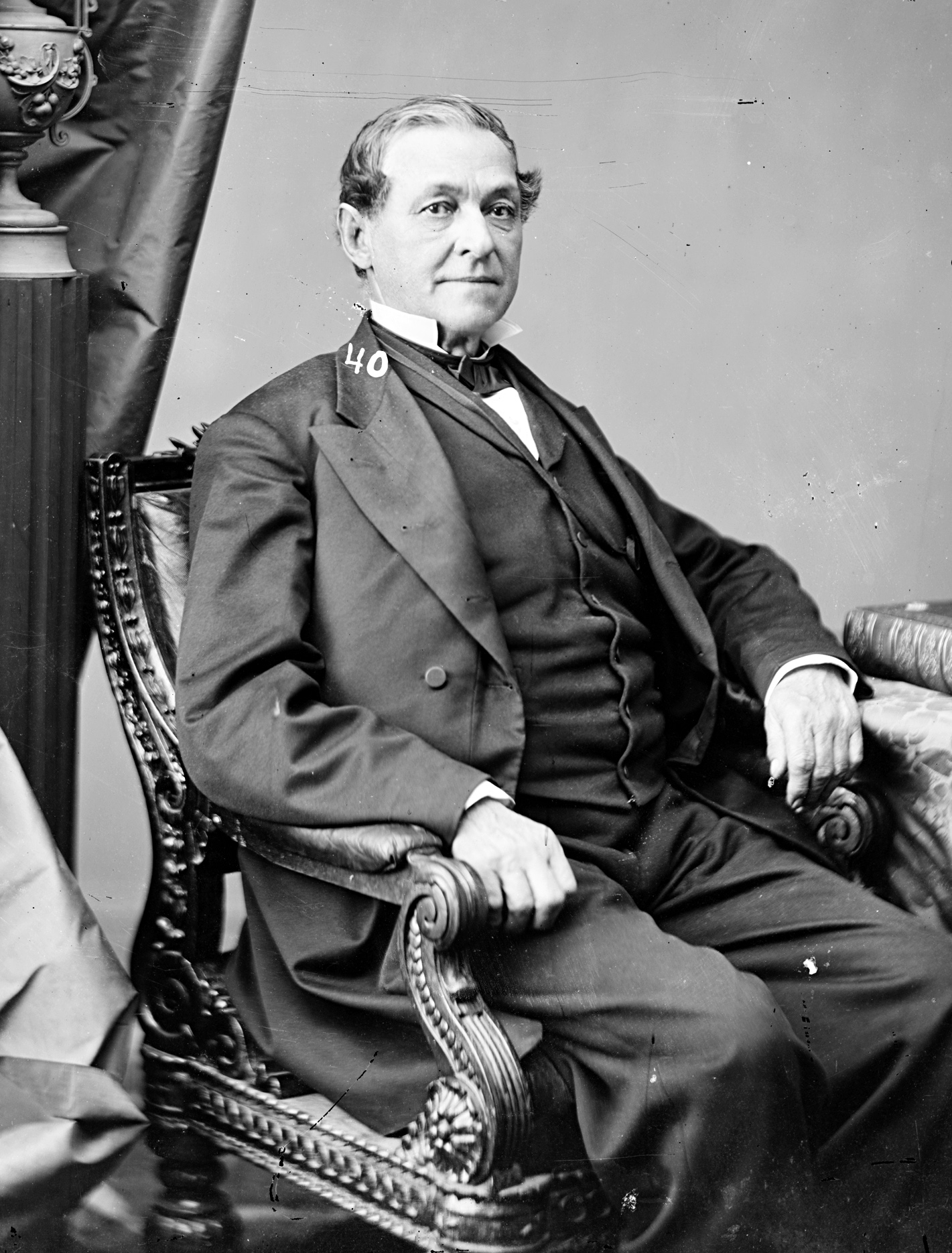 Charles Sitgreaves, US Representative from New Jersey